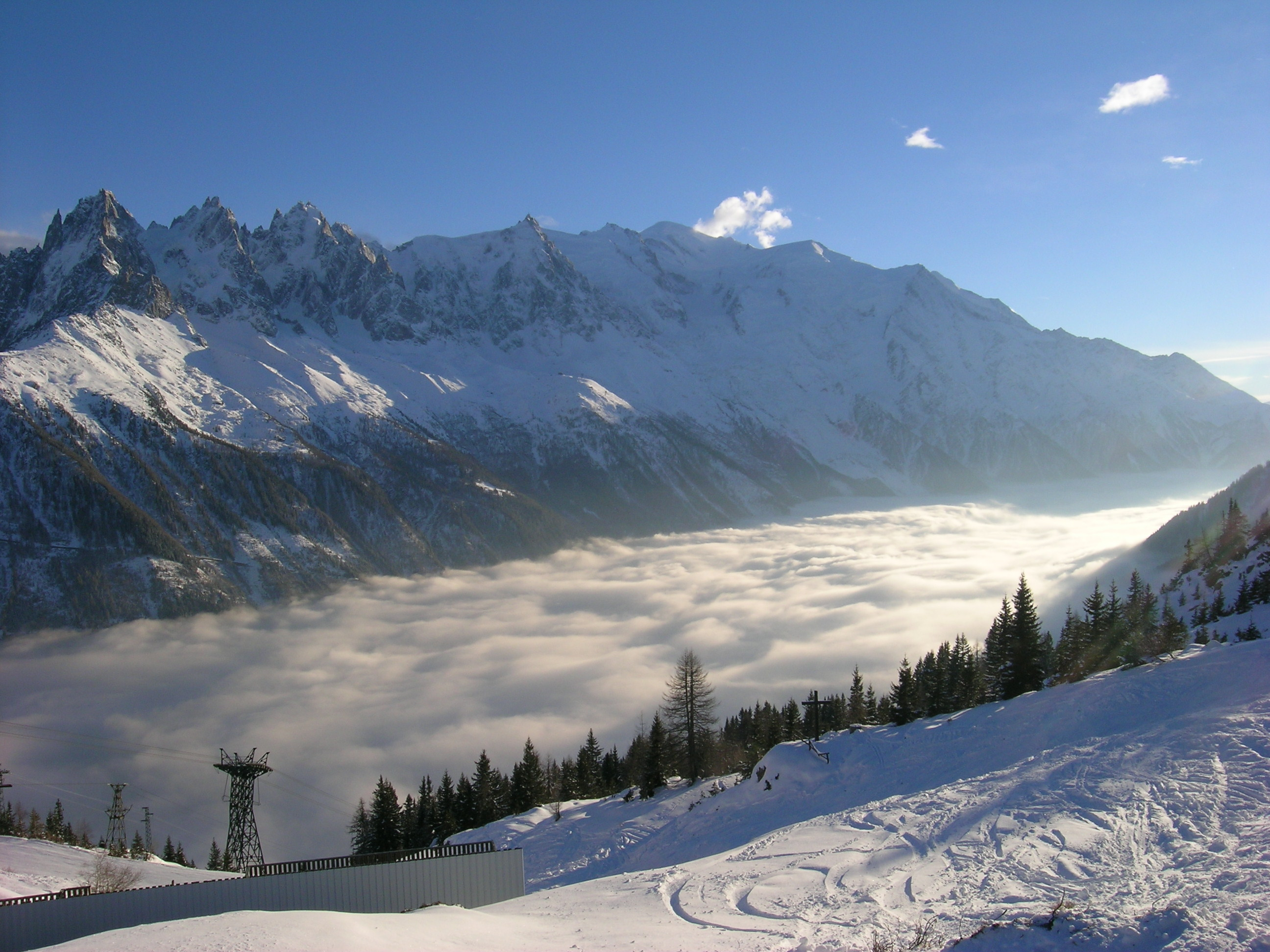 Chamonix valley, cloudsChamonix valley clouds